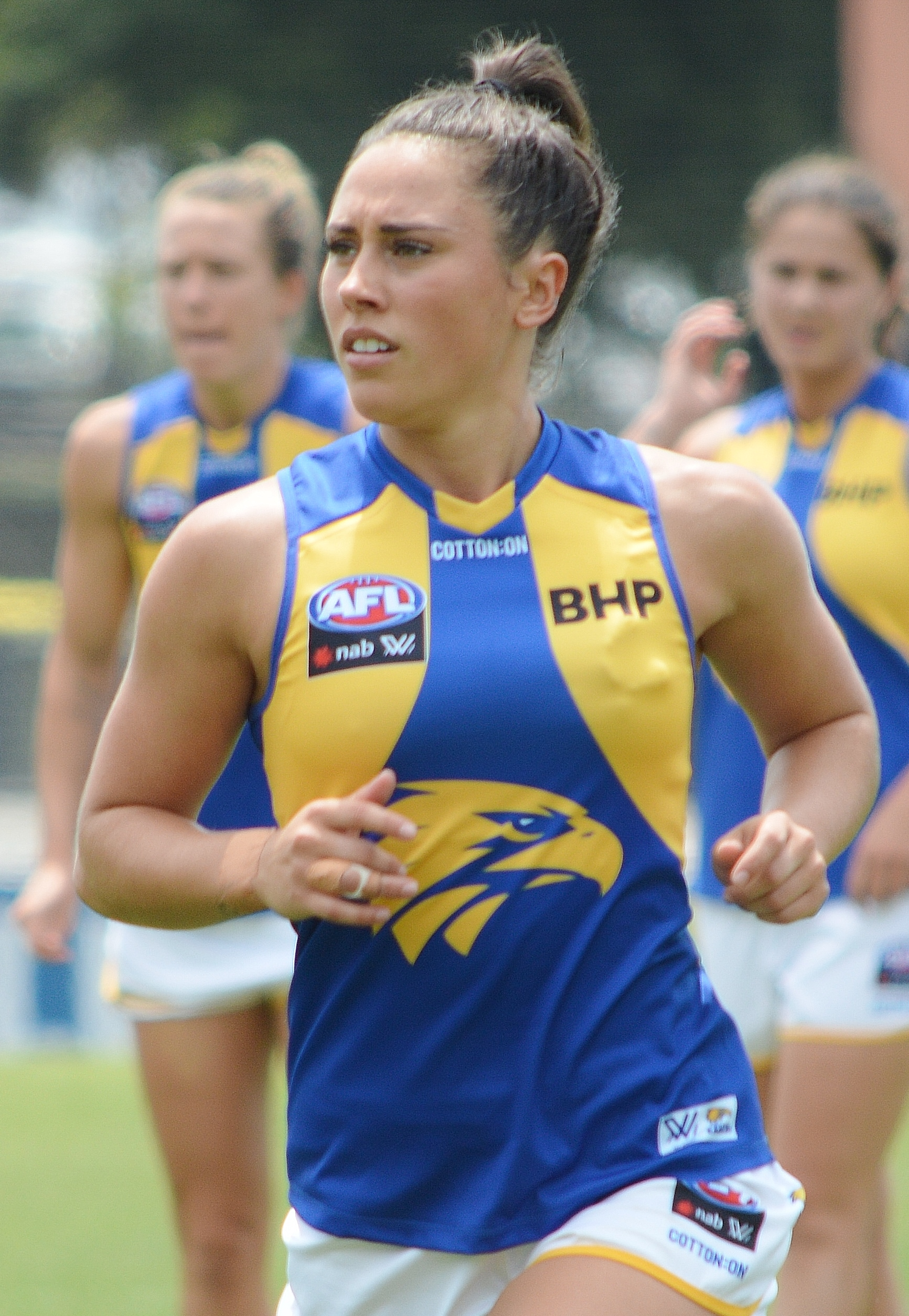 Hayley Bullas with West Coast during a pre-season AFL Women's match against Richmond at Punt Road Oval in January 2020.